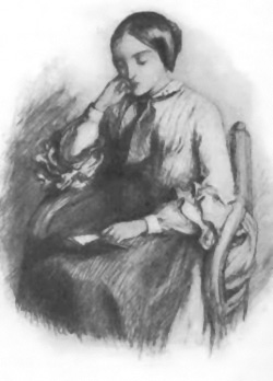 "Christina leaning her head on her right hand, seated in a chair reading a book on her lap. The sleeves are flounced at the elbows." (Surtees, A Catalogue Raisonné, vol.1, p. 184 (no. 426); in Marillier, DGR: An Illustrated Memorial, p. 12: see references)